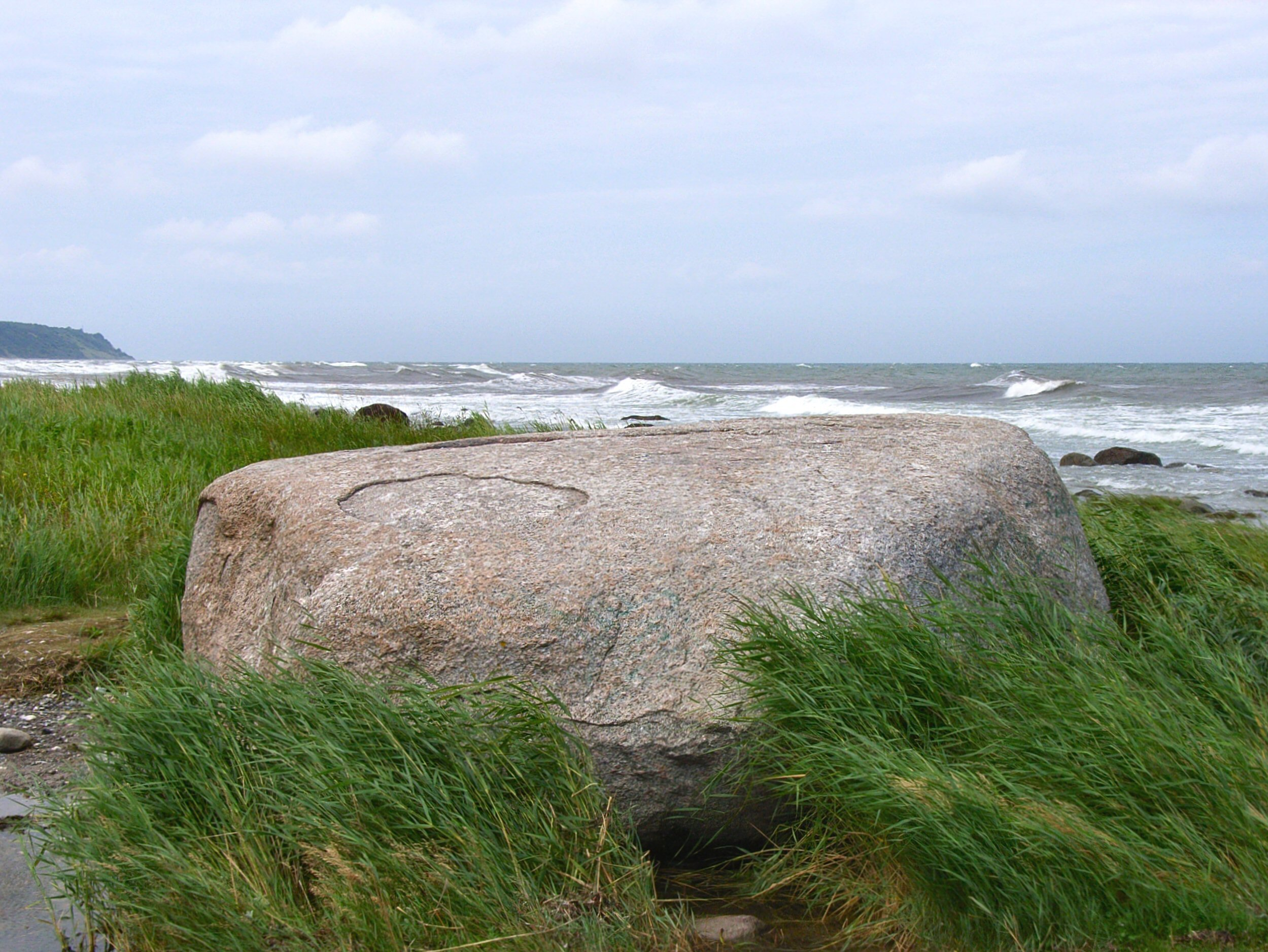 Glacial erratic “Siebenschneiderstein” near Cape Arkona on island Rügen